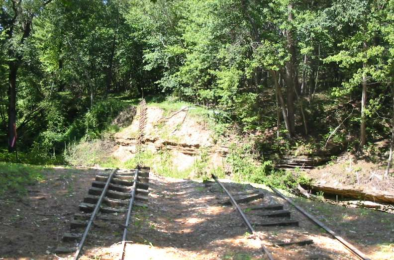 The results of a washout on the Riverside and Great Northern Railroad in Wisconsin Dells, Wisconsin. The washout occurred on June 11, 2004; construction of a bridge to cross the gap began on August 2, 2005. The railroad hopes to have the bridge in operation for the 2006 summer season.